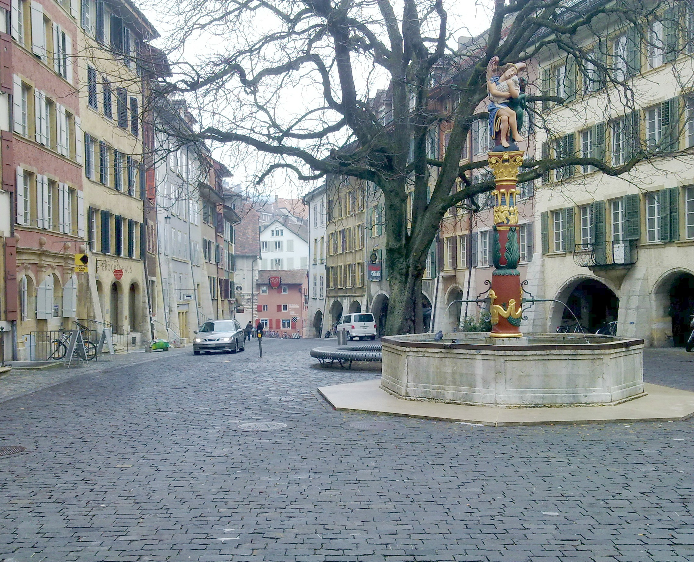 Engelsbrunnen in German